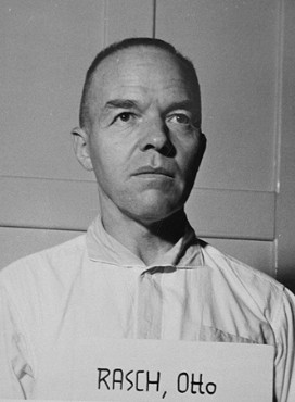 Otto Rasch (1891-1948), German SS-General of the Einsatzgruppen killing squads. This photograph of Rasch was taken by US Army photographers on behalf of the Office of Chief of Counsel for War Crimes (OCCWC) during Nuremberg Trial IX (Einsatzgruppen Trial / Einsatzgruppen-Prozess).